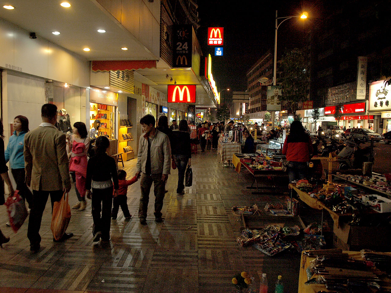 Xijiao Road in Kaiping, China